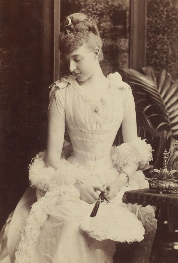 Hélène, Duchess of Aosta (nee Princess d´Orleans)